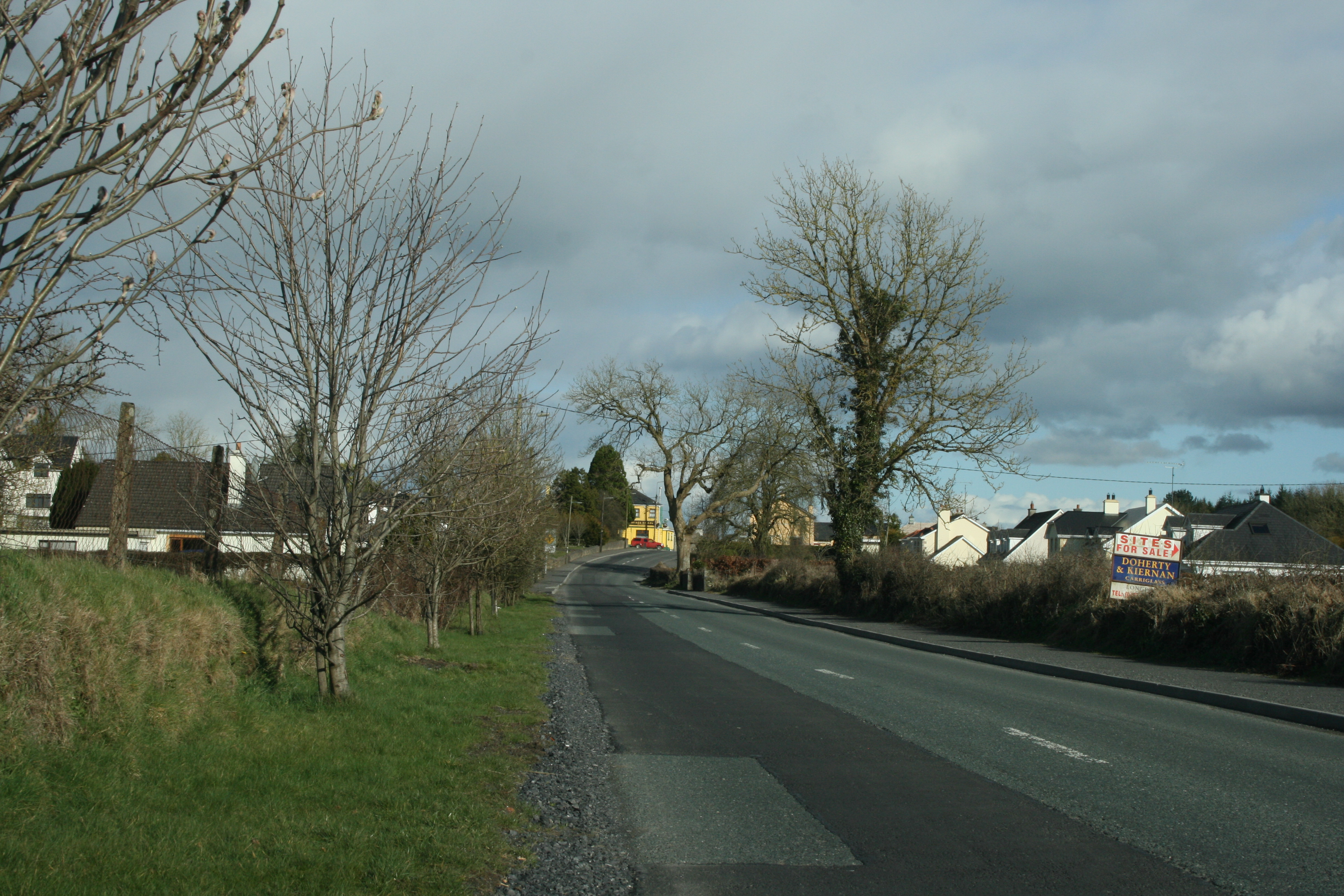 Ballinalee, County Longford, near to Ballinalee, Longford, Ireland. Approaching on the R194 from the west.